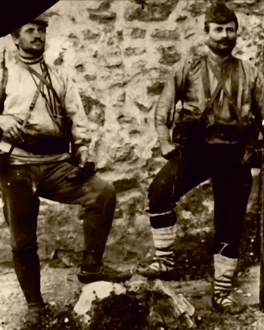 Portrait of Stoyo Hadzhiev and Dimitar Ikonomov, bulgarian revolutionaries from IMARO